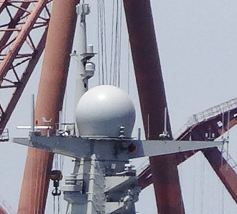 Type 364 radar of PLANS Changsha (DDG-173).